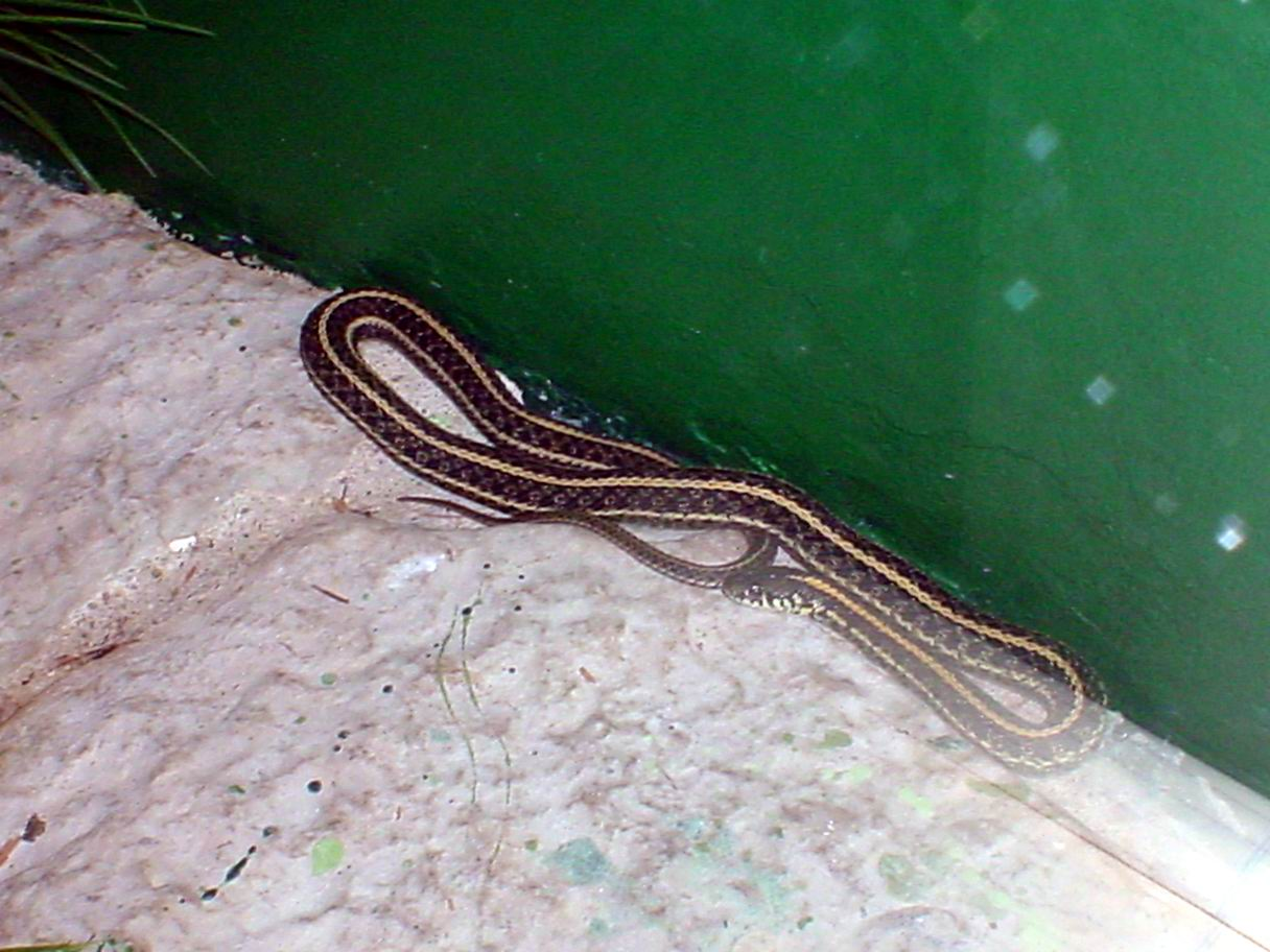 Eastern Plains Garter Snake (Thamnophis radix radix) at the Columbus Zoo and Aquarium.